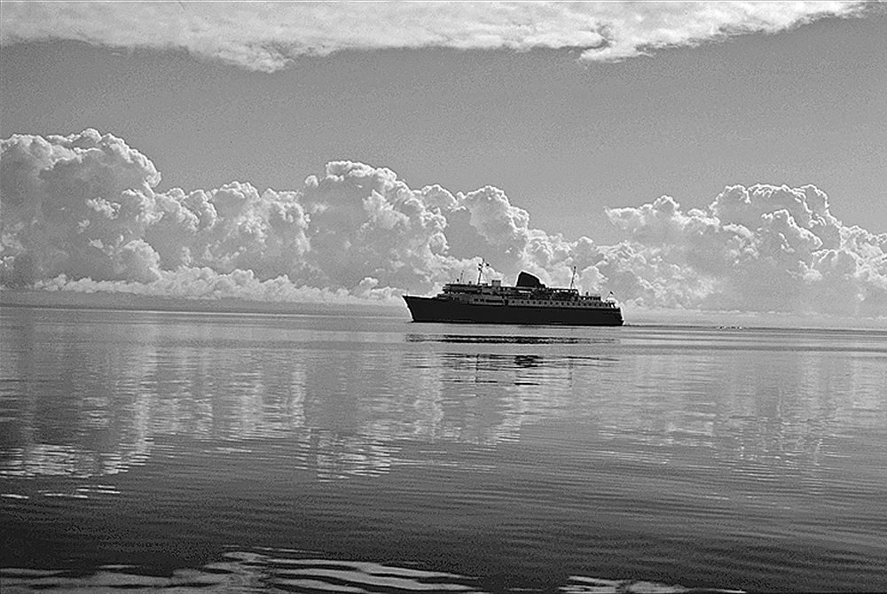 AMHS Ferry